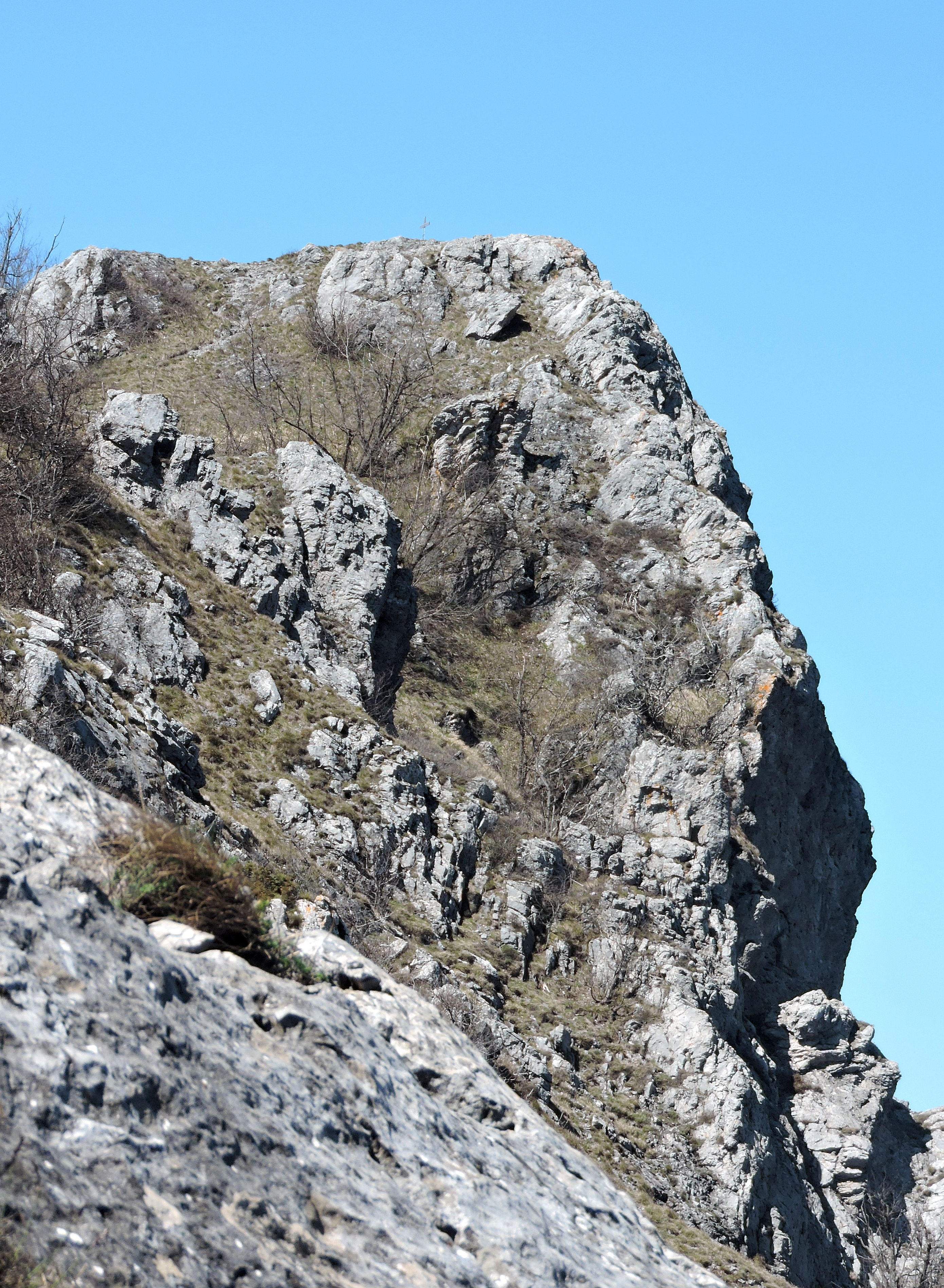 Rocca Barbena (Ligurian Prealps, SV, Itay) as viewed from East